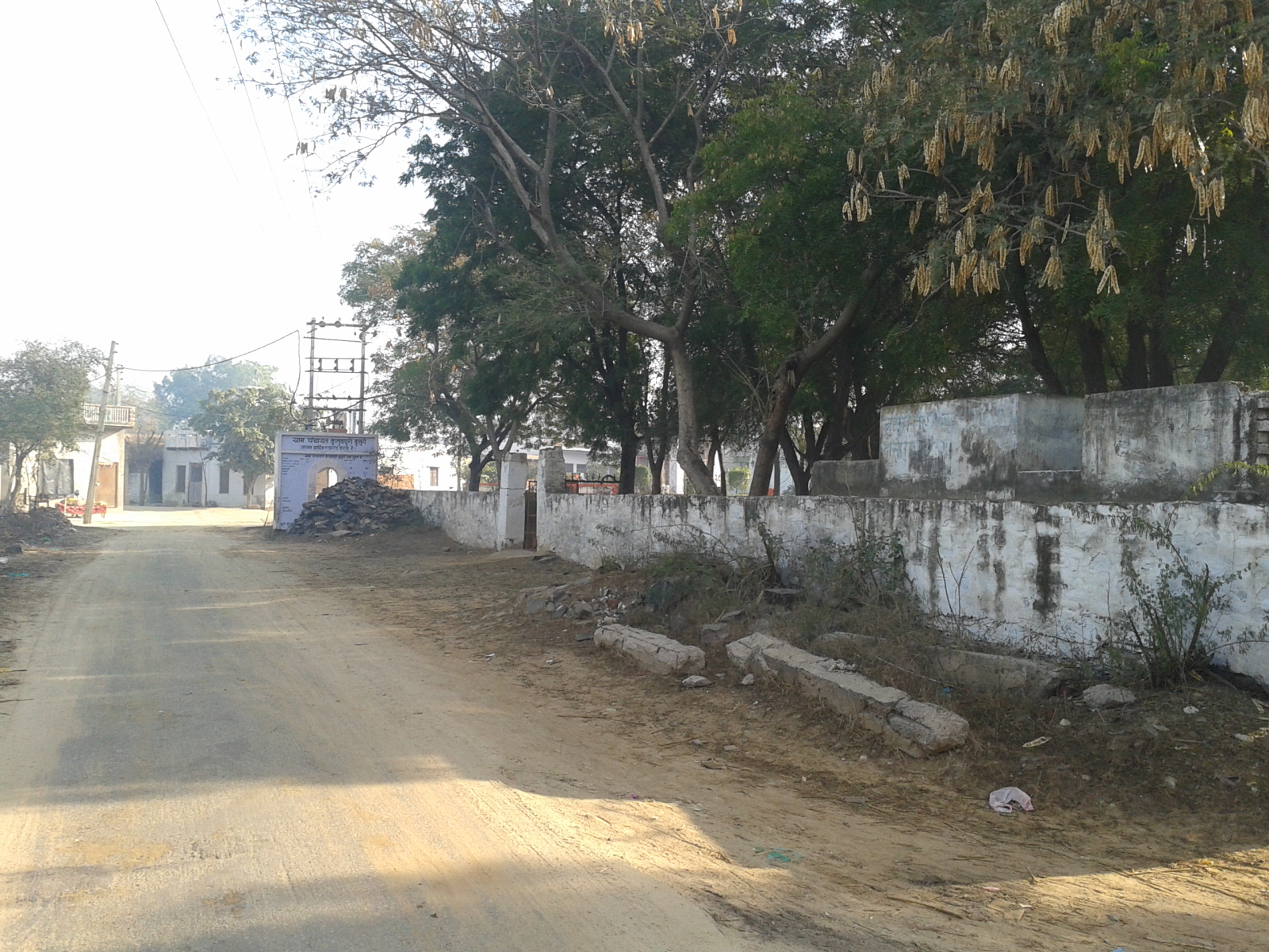 The road to Katopuri approaches from Lala, hardly a 3.0KMs away from the Lala-Kosli Road which is the main road linked to the Rewari City.